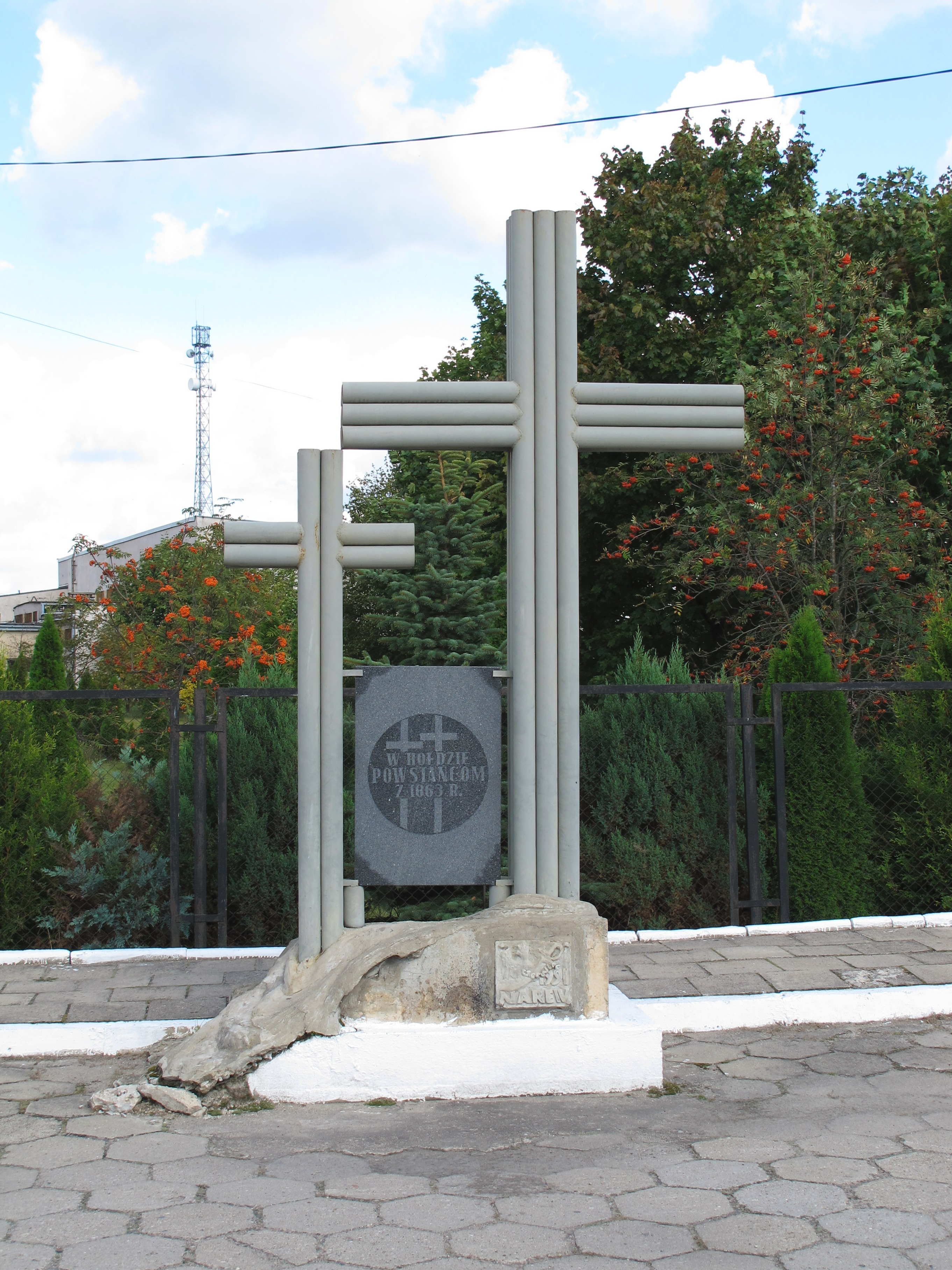 Crosses to the fallen january uprising insurgents by school at Mickiewicza street in Narew, gmina Narew, podlaskie, Poland